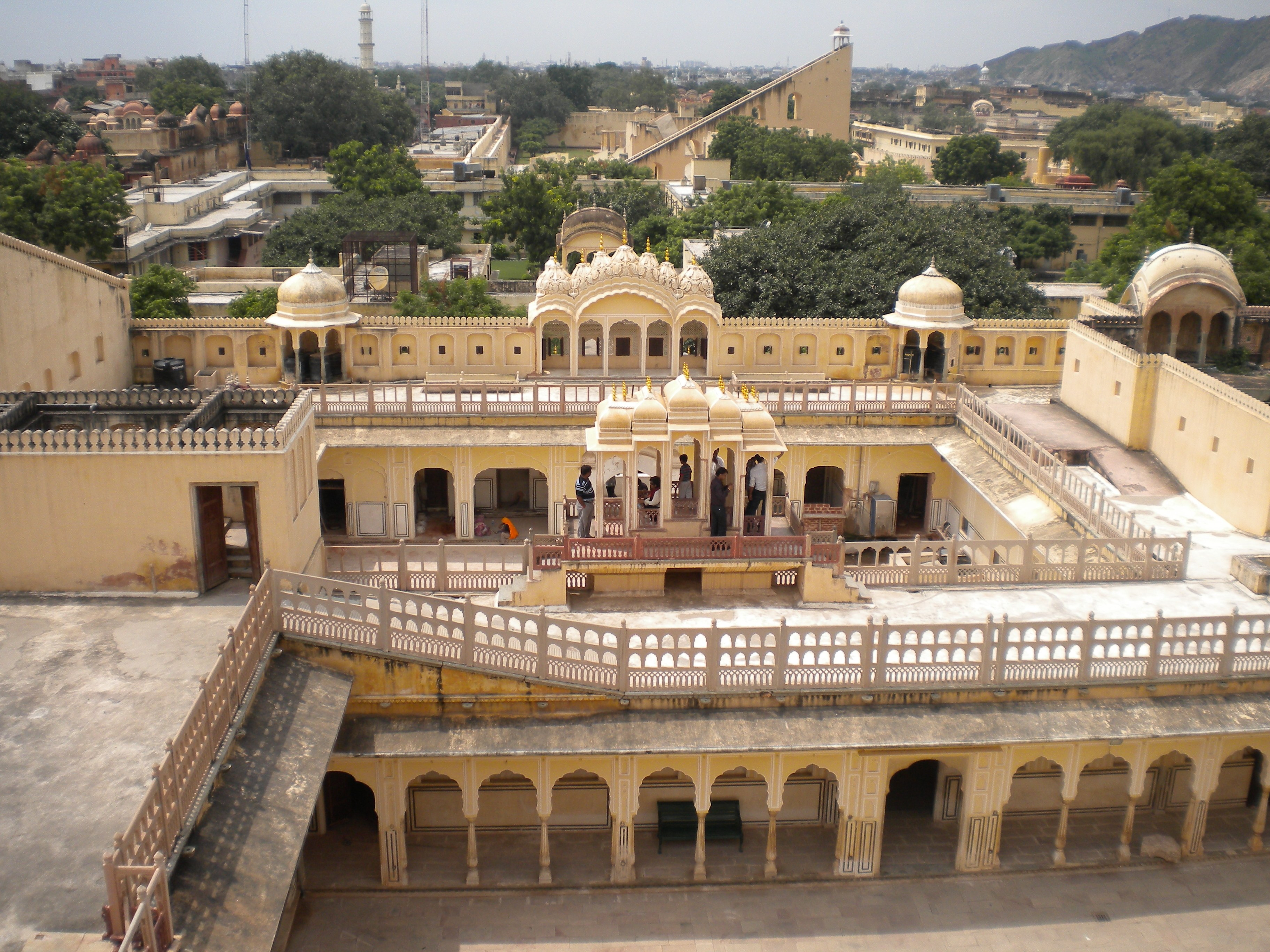 Two courtyards of Hawa Mahal, Jaipur, India